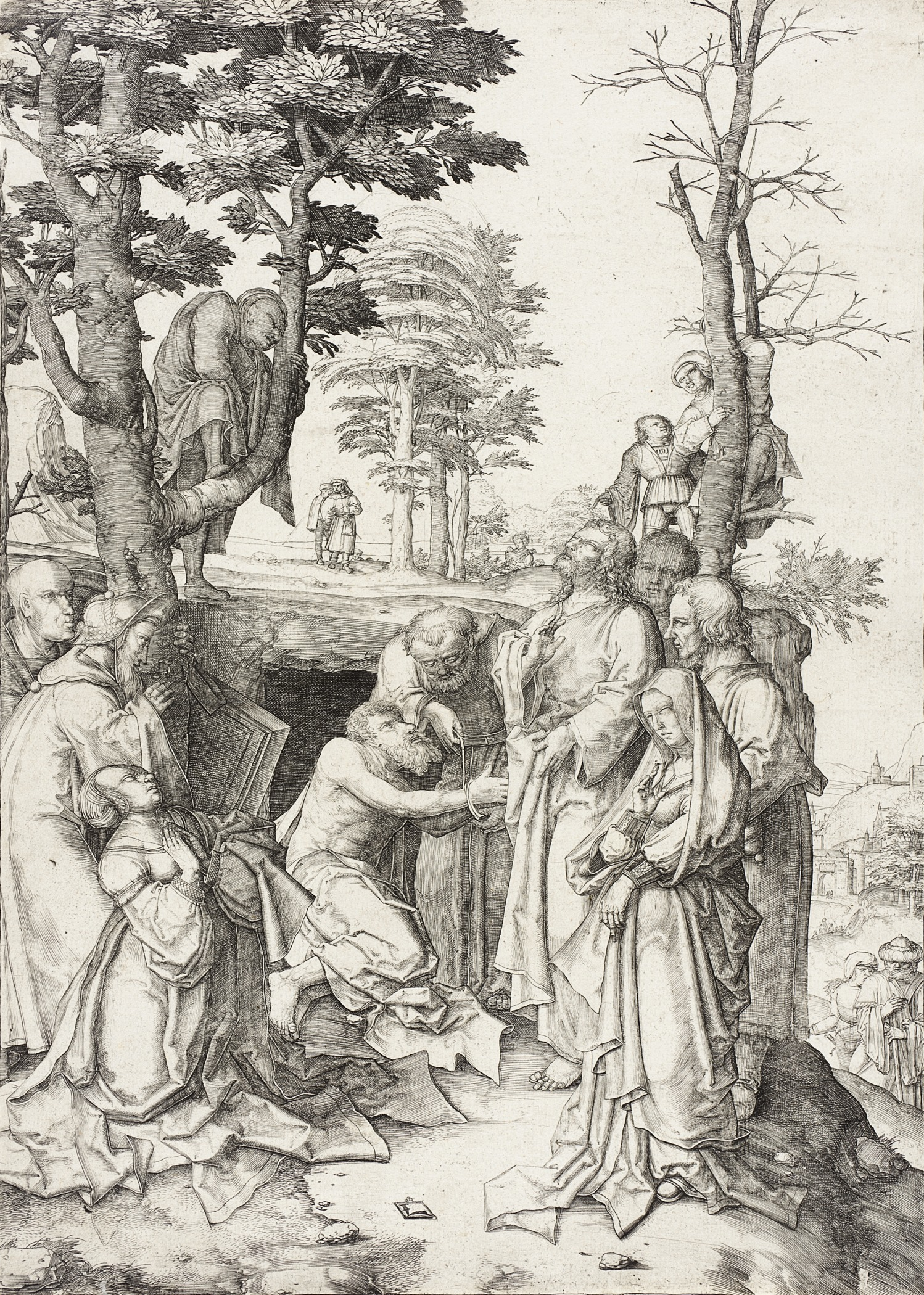 Holland, circa 1507 Prints; engravings Engraving Gift of Joseph B. Koepfli (M.61.22) Prints and Drawings